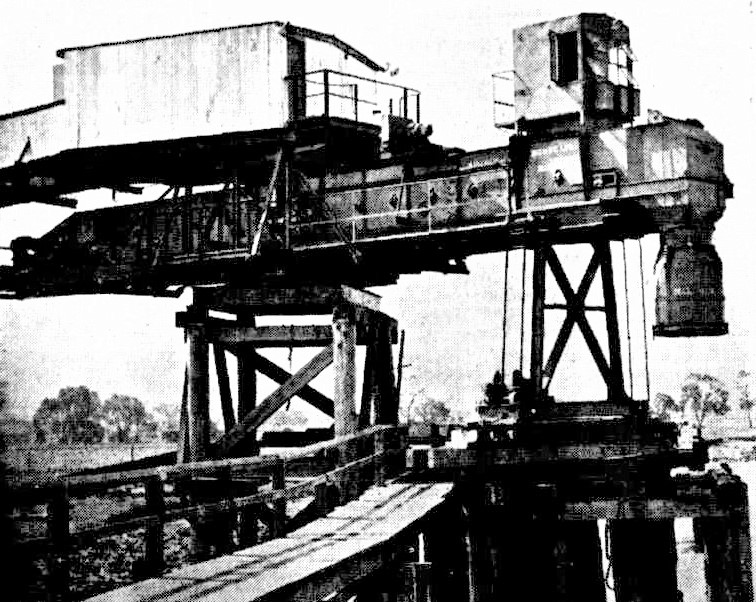 This is the coal loader of Hetton Bellbird Collieries Ltd. at Hexham NSW in 1936. It loaded ships at the rate of 500 tons per hour.